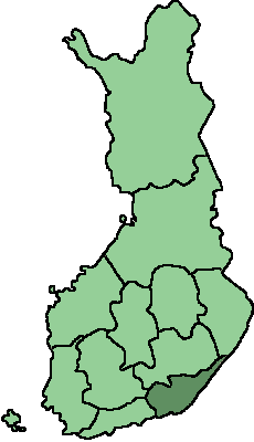 The Finnish province of Kymi (Kymen lääni) as of 1997